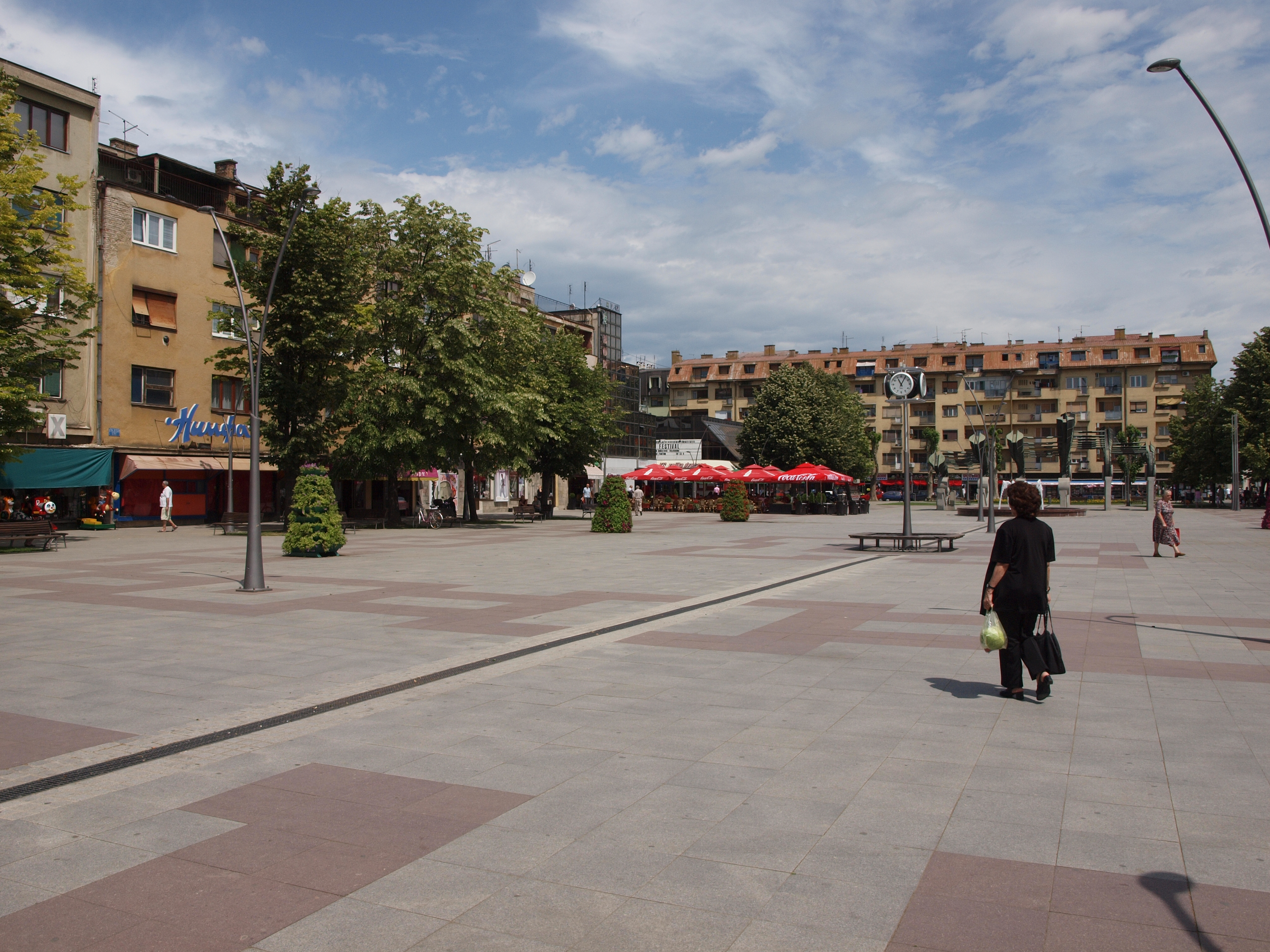 Main place in Ruma, 2009